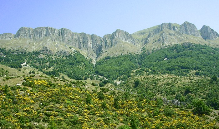 Montagna dei Fiori of the Apennine mountains - Abruzzo. Plant habitat ecoregion in the Temperate broadleaf and mixed forests biome. picture taken by user Idéfix July 2005